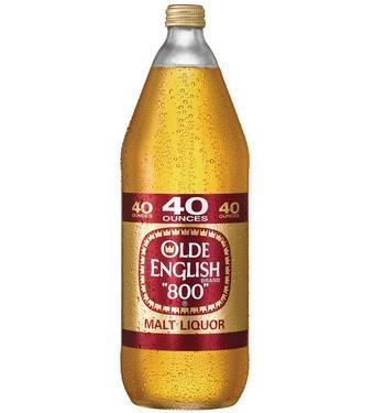 Old English 800 Forty Ounce